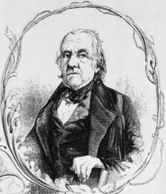 Æneas Munson (1734-1826)